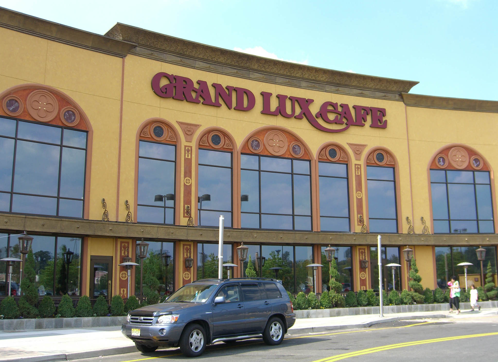 The Grand Lux Cafe at Westfield Garden State Plaza in Paramus, New Jersey. This photo was created by Luigi Novi. It is not in the public domain, and use of this file outside of the licensing terms is a copyright violation.